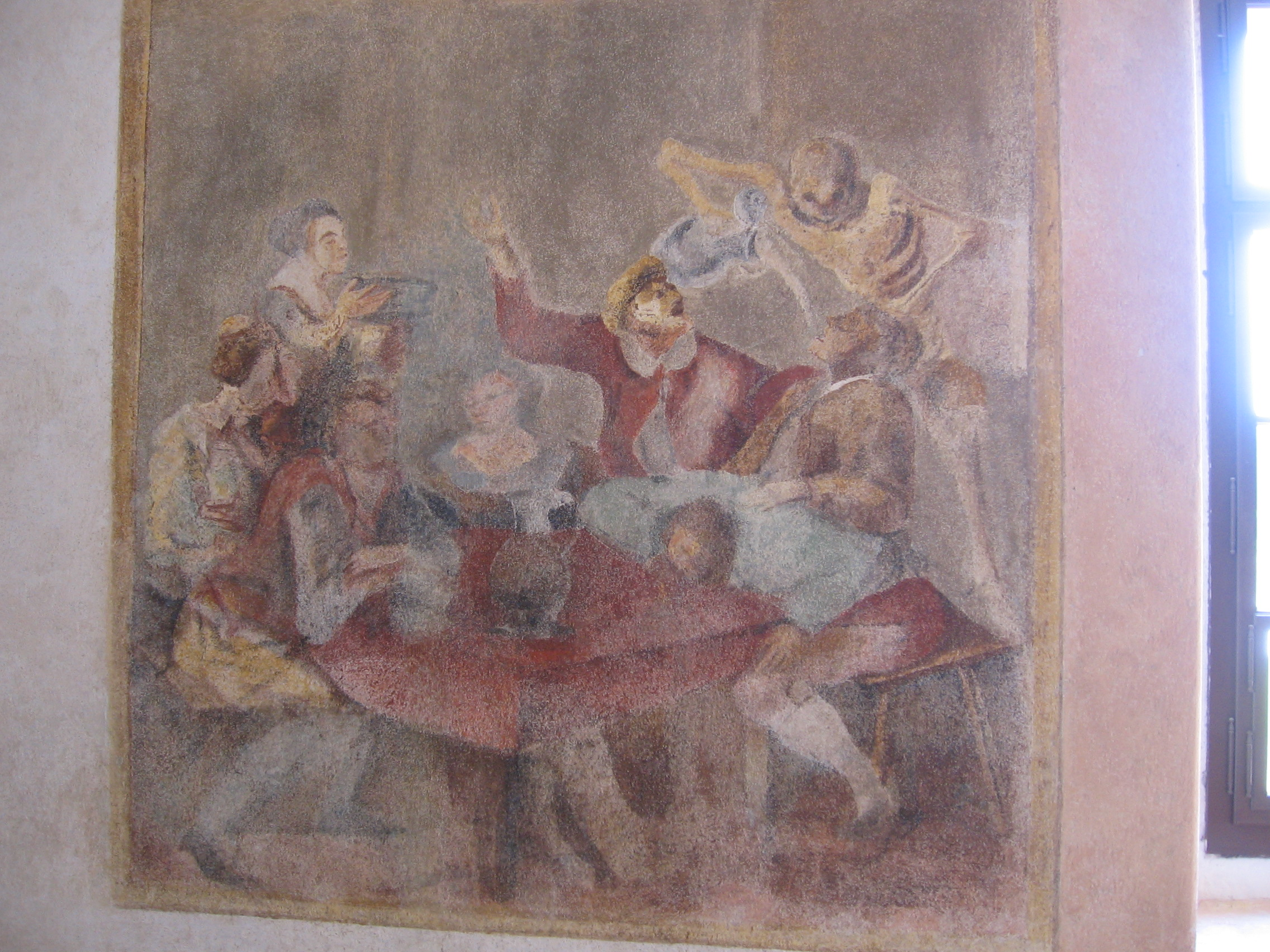 Dance of Death in the main corridor of the historical hospital in Kuks